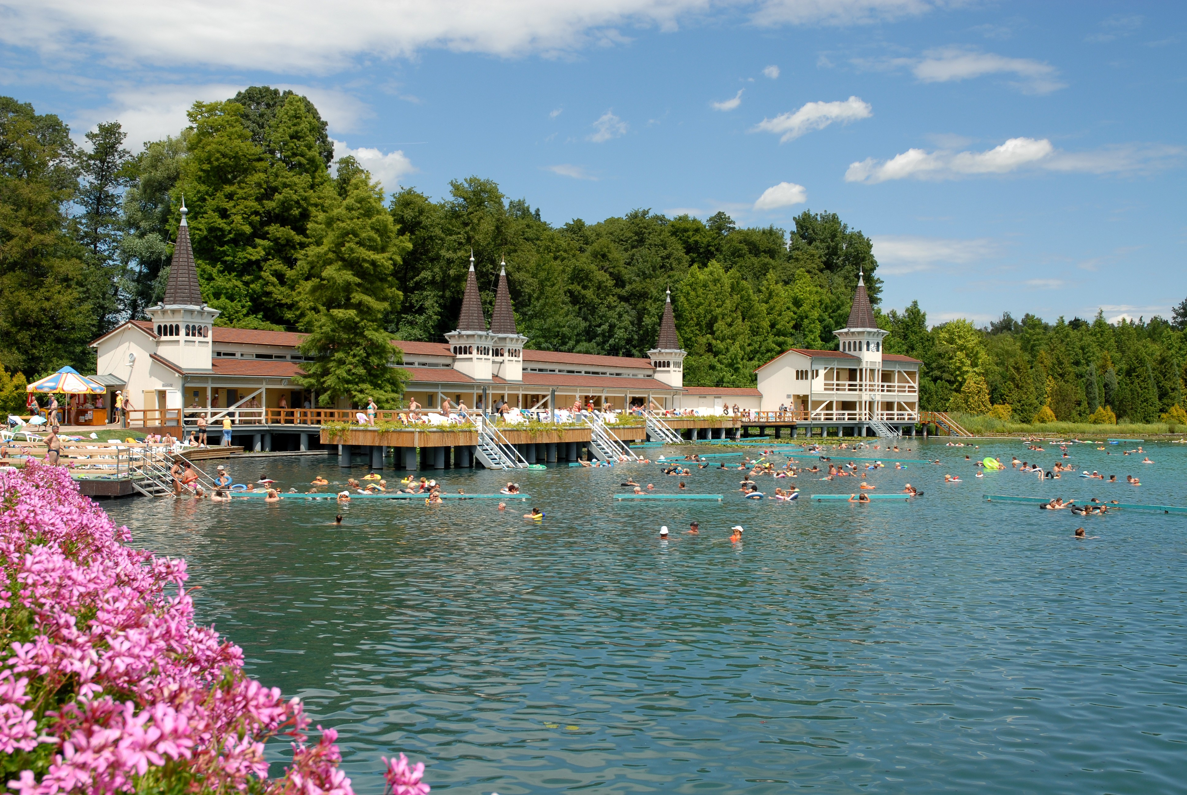 Hévíz, Hungary. Lake side buildings